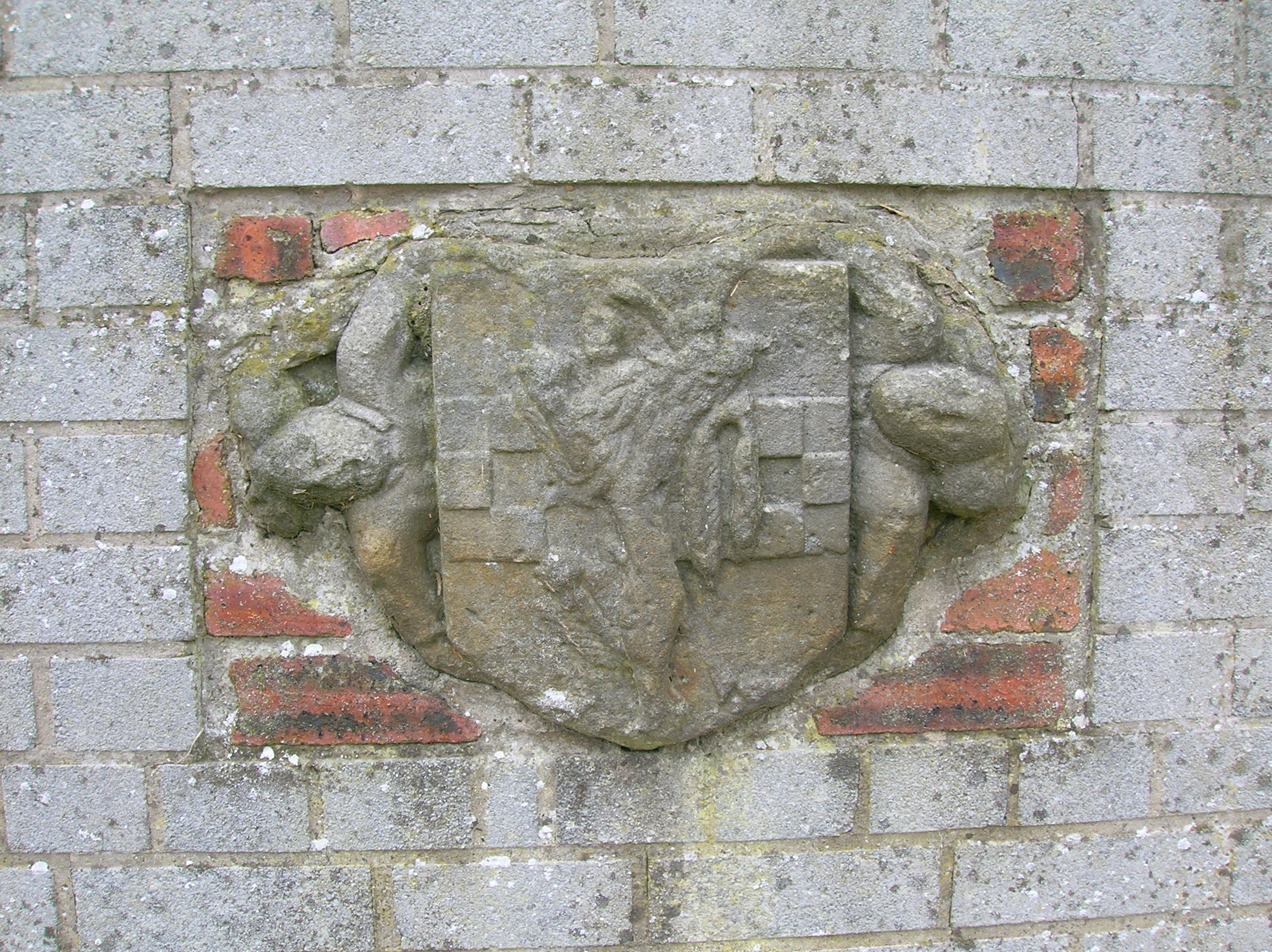 Lindsay/Campbell family coat of arms, Craigie Mains, South Ayrshire, Scotland